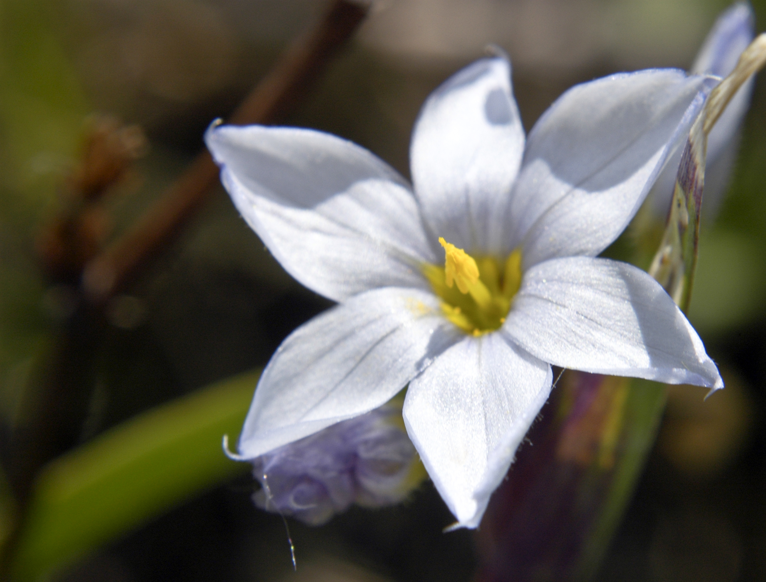 Sisyrinchium albidum, James Woodworth Prairie Preserve, Glenview, IL, USA